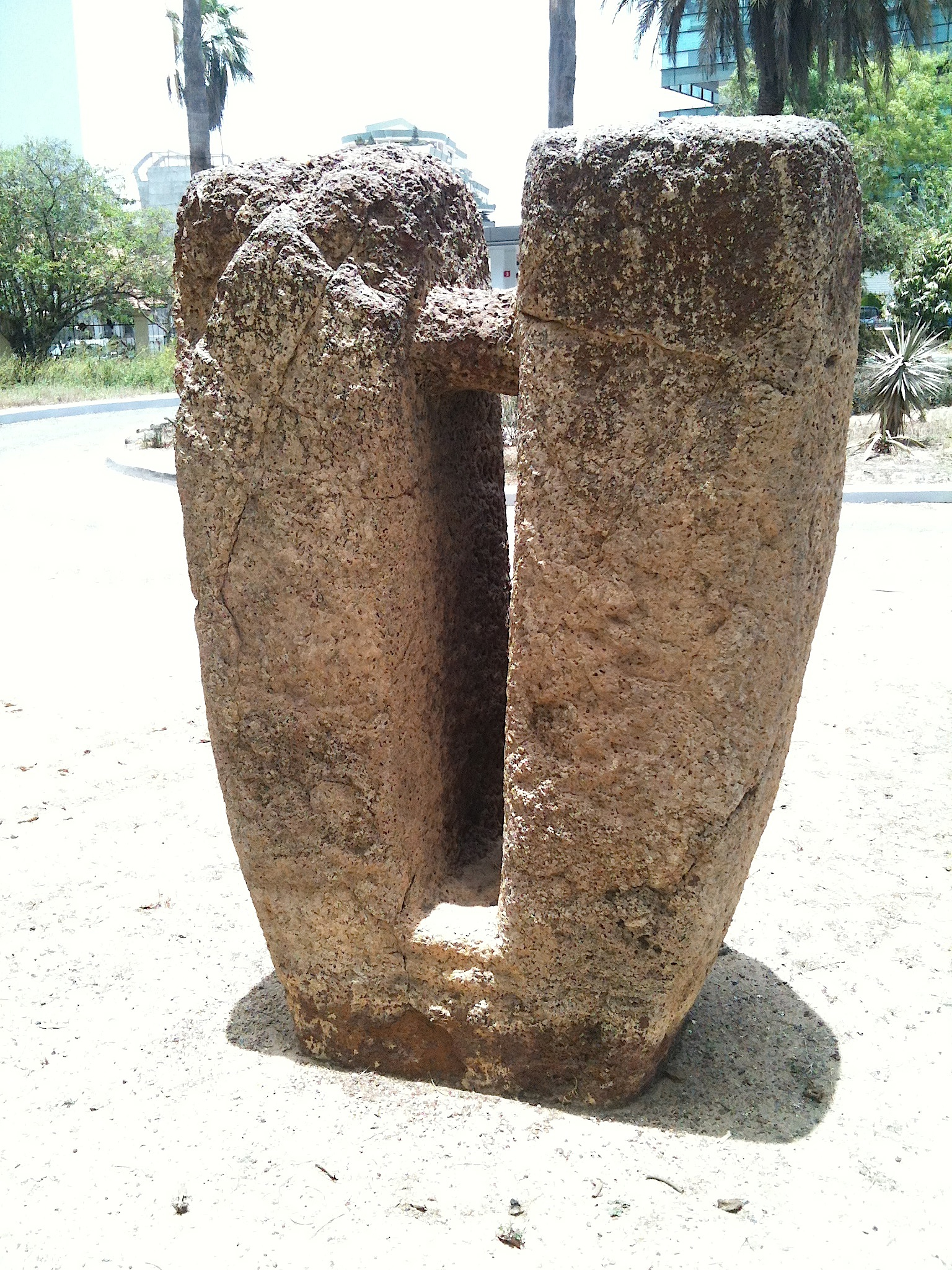 Megalithitic Stone in the courtyard of the Musée Théodore Monod, Dakar, Sénégal.